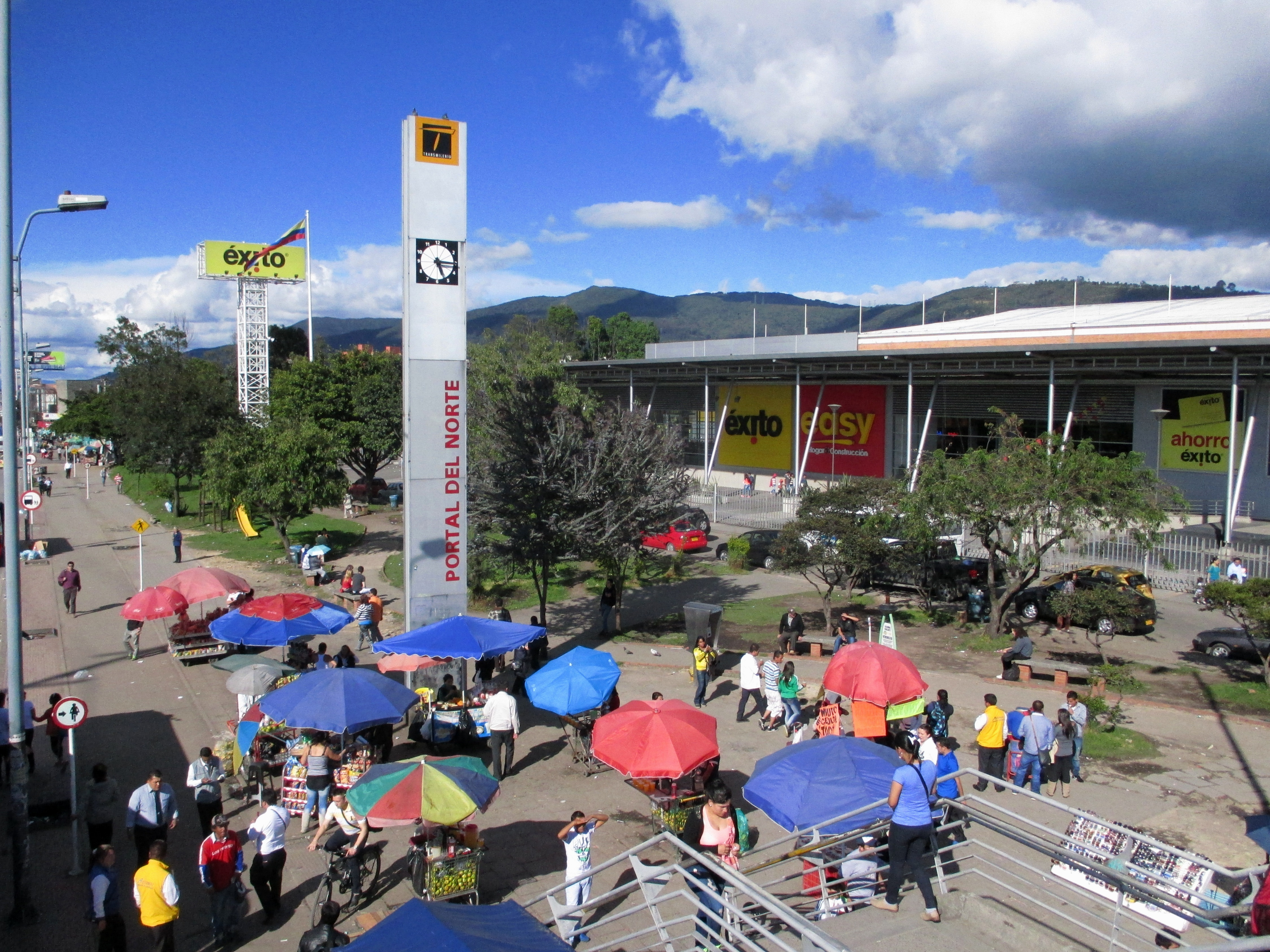 Bogotá